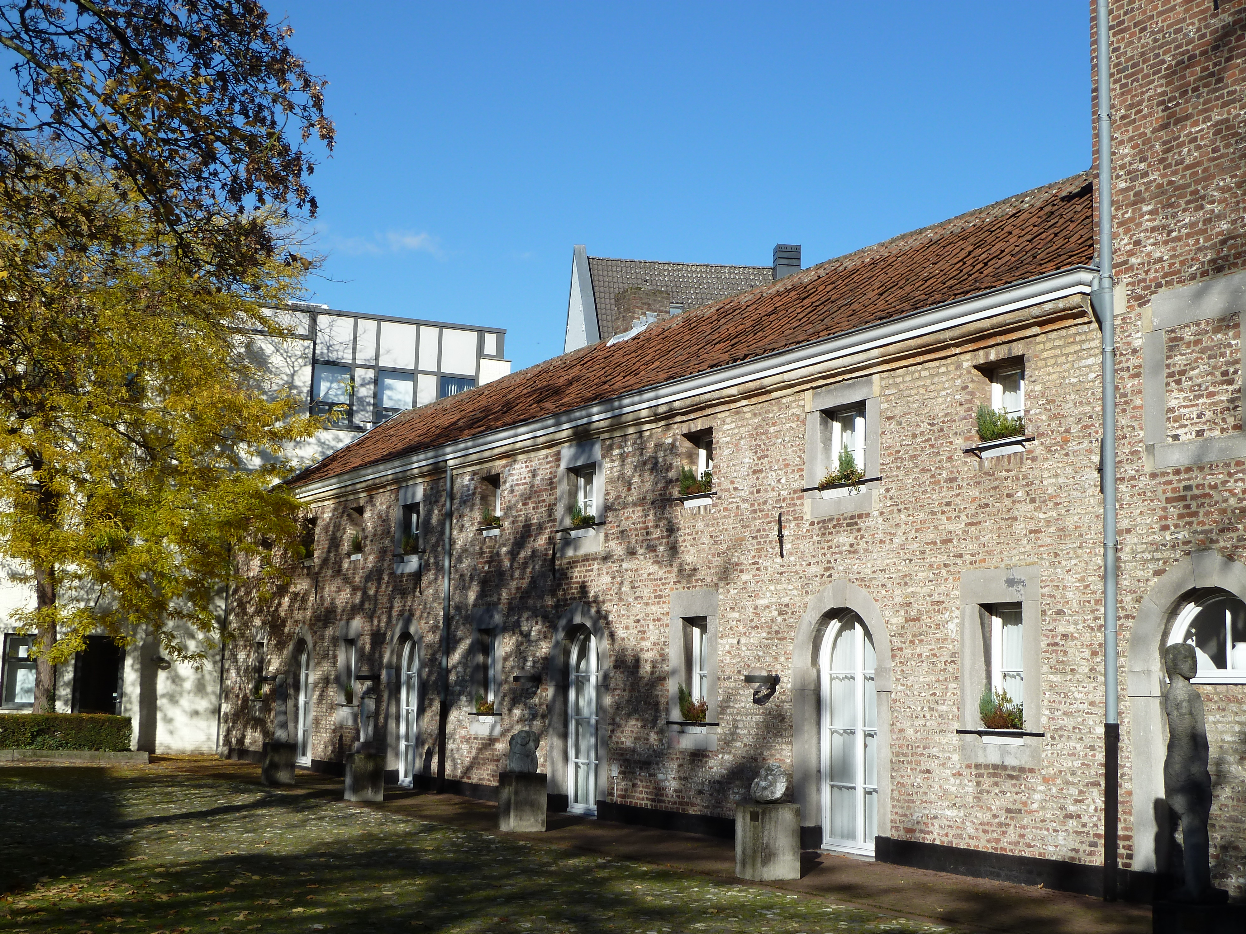 Kerkstraat 8, Meerssen, Limburg, the Netherlands